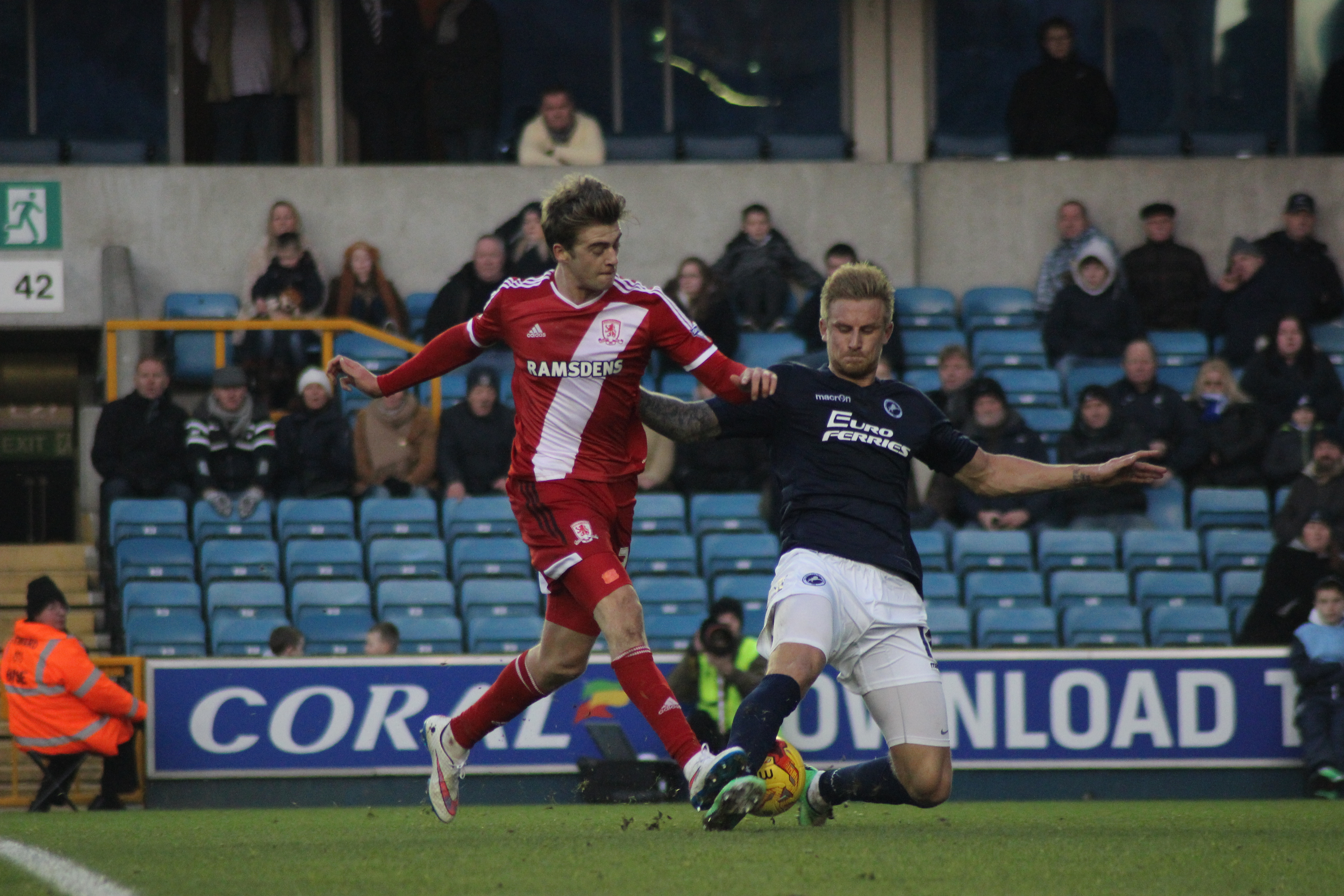 Patrick Bamford of Middlesbrough takes a shot at goal